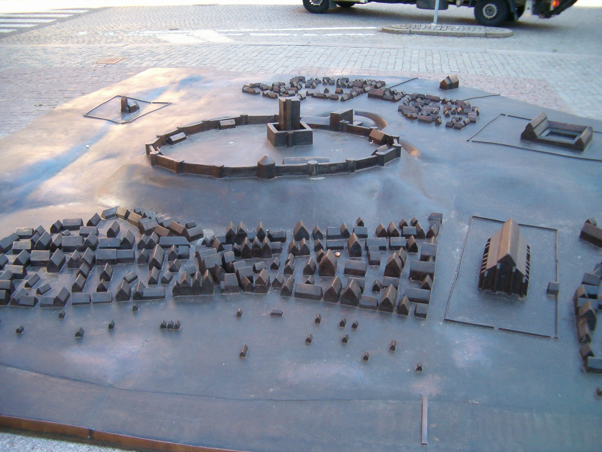 Bronze model of Helsingborg as it may have looked in the 15th century.